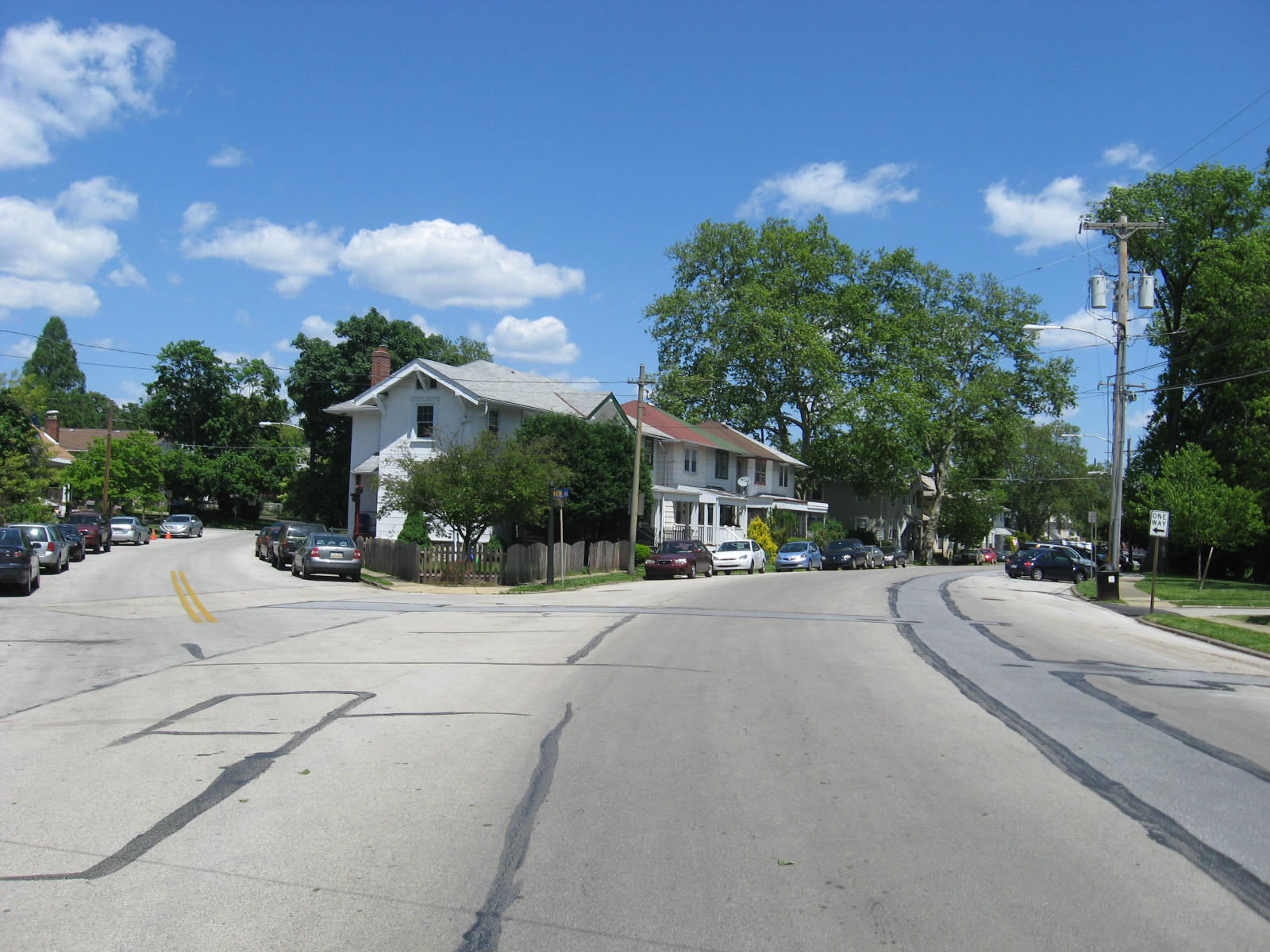 glenside houses